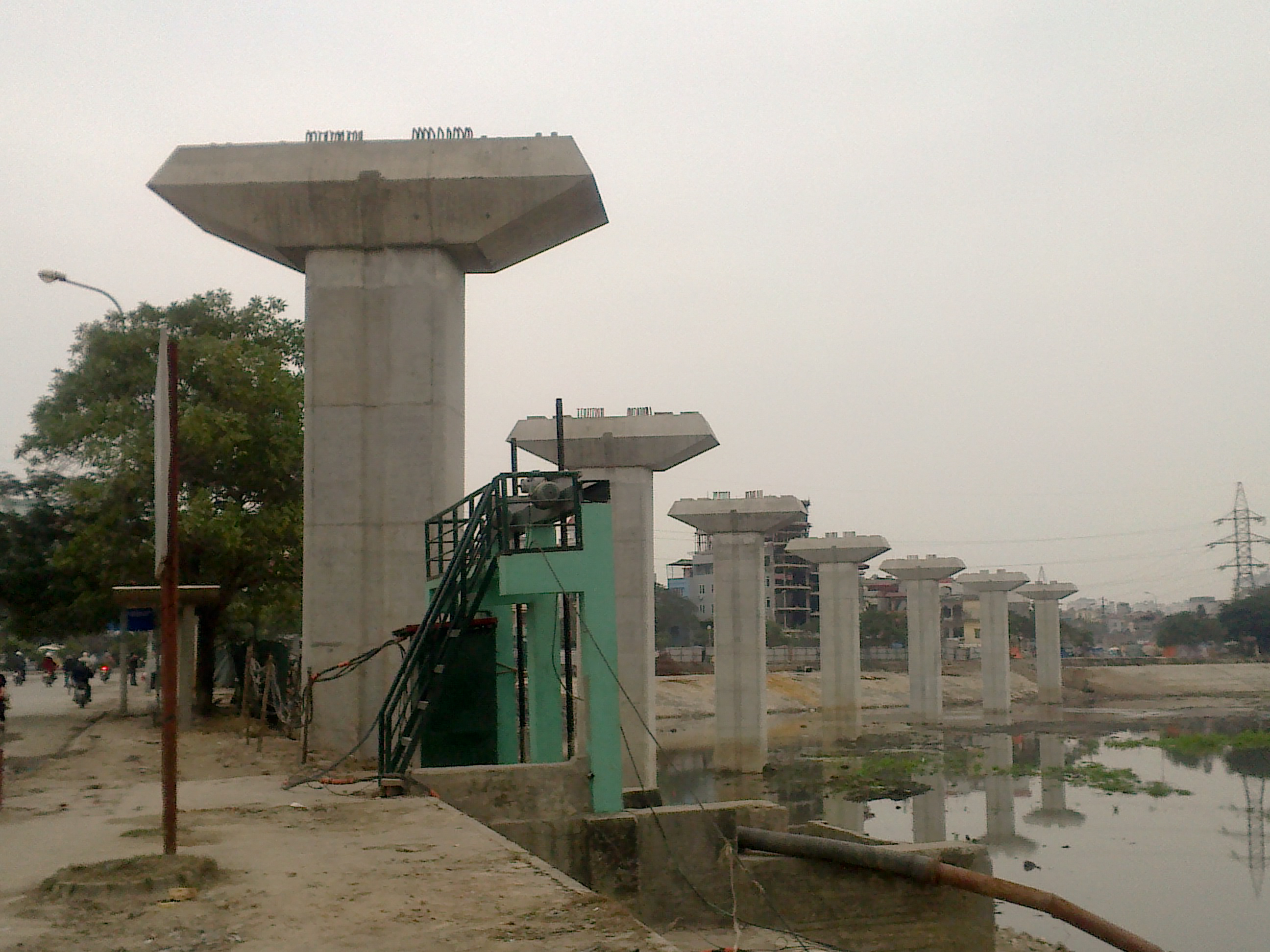 Cat Linh - Ha Dong urban railway line is under construction.